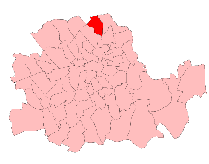 A map of Stoke Newington constituency within the London County Council area, as it existed from 1918 to 1949.